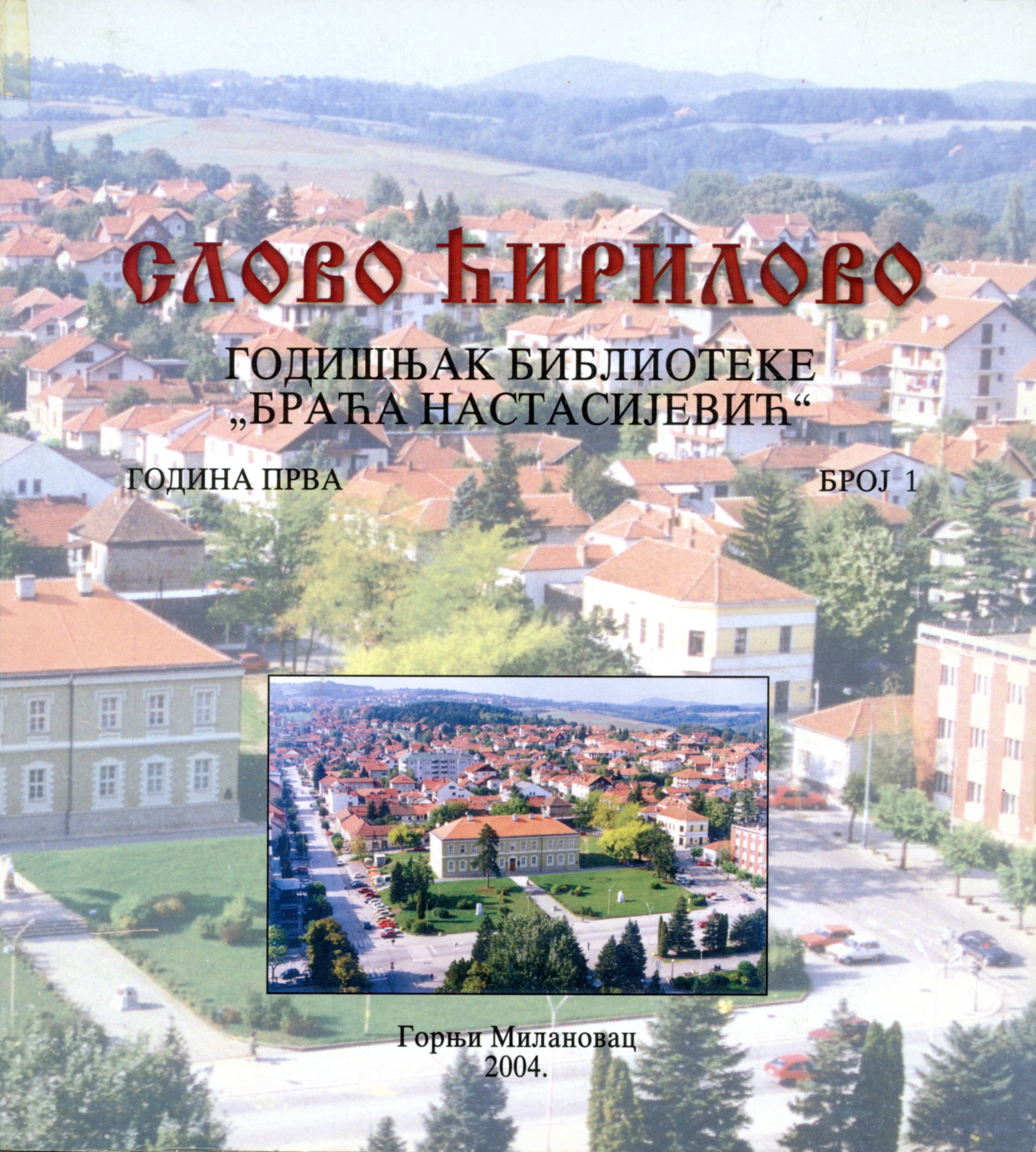 Cover page of journal Slovo Cirilovo from 2004, Public Library "Braca Nastasijevic", Gornji Milanovac, Serbia